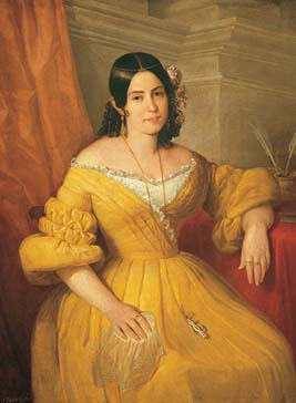 Gertrudis Gómez de Avellaneda